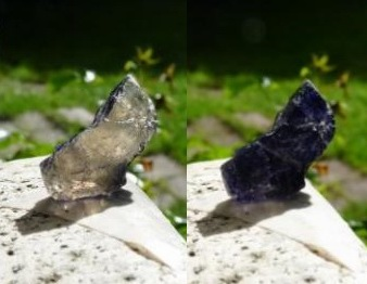 Pleochroism of cordierite illustrated by rotating a linear polarizer on the lens of the camera.